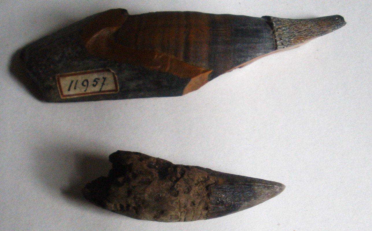 Crop of file in filename